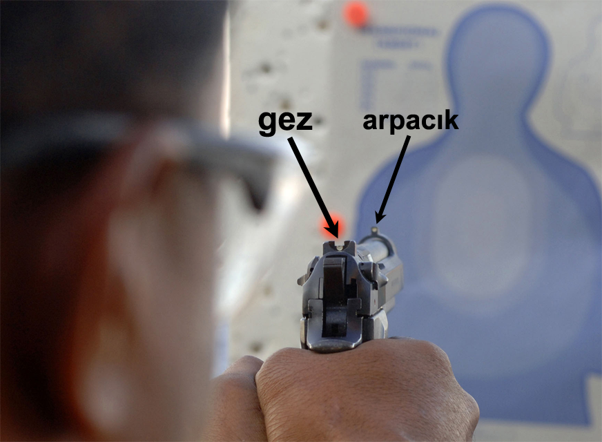 rear and front iron sights